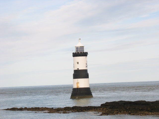 Goleudy Trwyn Du Lighthouse Although officially the Trwyn Du (black nose) lighthouse, it is referred to locally as 'Golau Penmon'(Penmon light). The lighthouse guards the narrow channel to the Menai Strait between the dangerous rocks of Trwyn Du and Carreg Edwen (Perch Rock) on the Ynys Seiriol (Puffin Island) side. The channel here is about 16 fathoms deep. The lighthouse was built following the loss of 150 lives when the "Rothsay Castle" sank in 1831. It was automated in 1922 and has been powered by solar panels since the 1990s. It has a particularly funereal sounding fog bell.